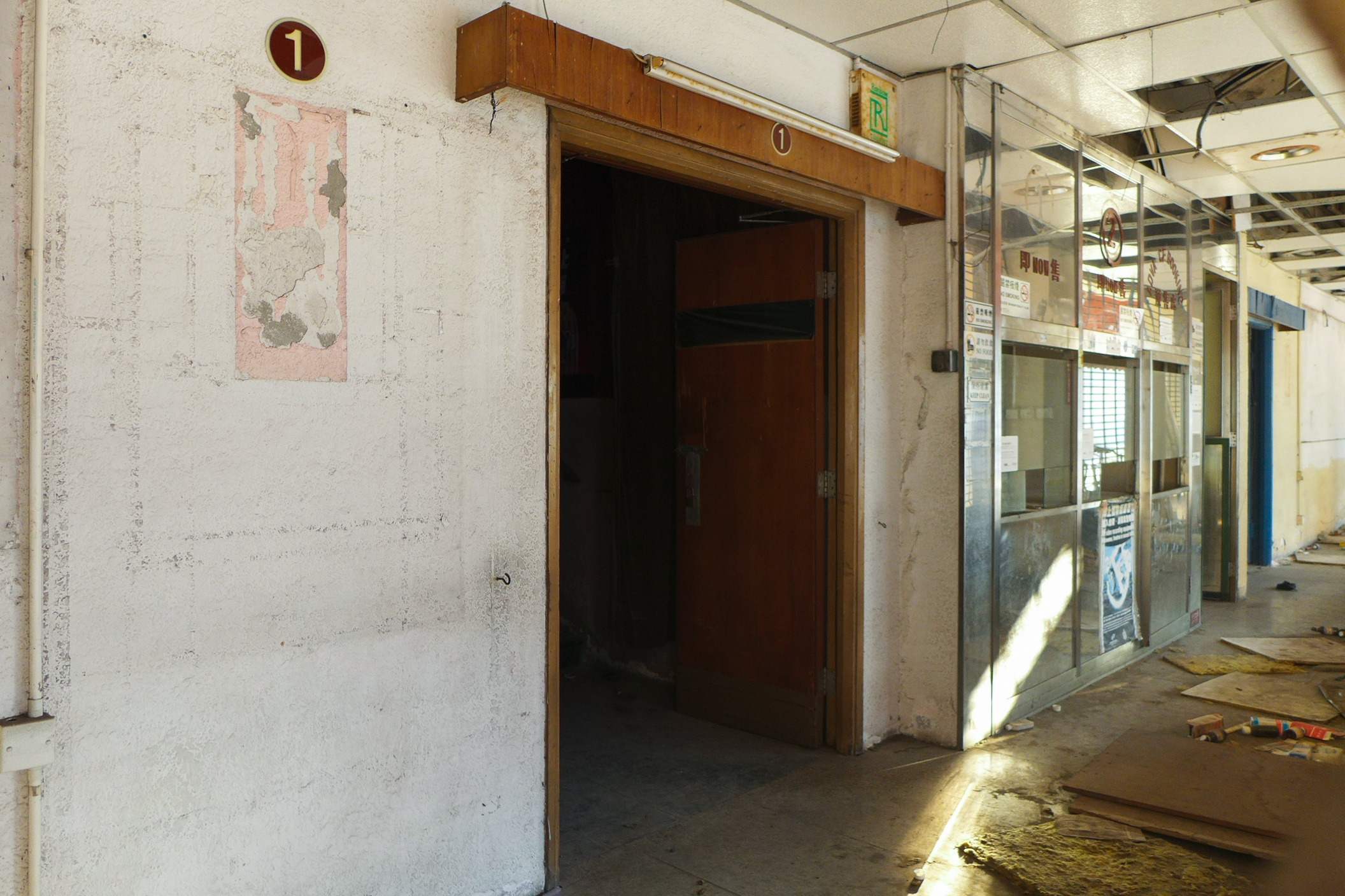 Fanling Theatre entrance